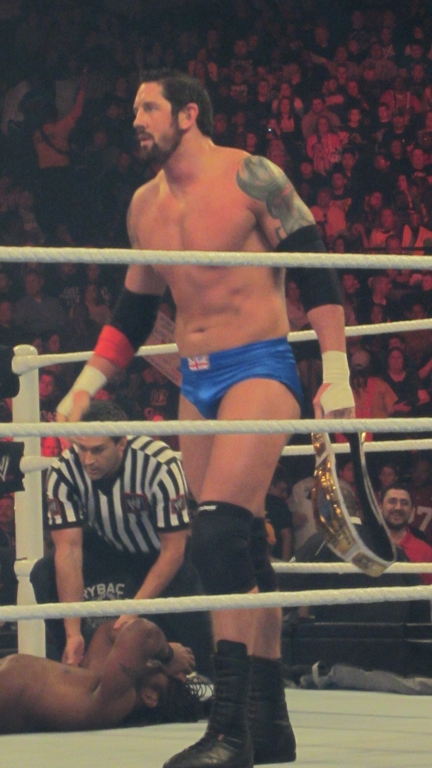 Wade Barrett as the Intercontinental Champion after defeating Kofi Kingston during a WWE Raw event